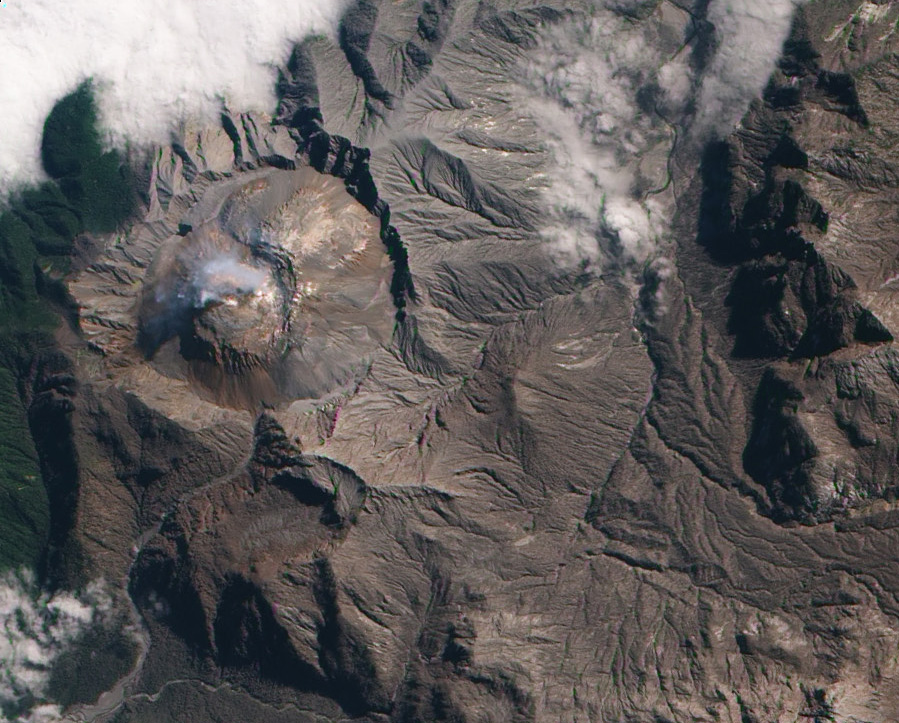 Reduced volcanic emissions and clear skies over southern Chile reveal Chaitén volcano's new lava dome. The dome almost completely fills the caldera left behind after Chaitén’s last eruption, which ended about 9,400 years ago. The bare rocky surface of the dome is brown, while gray ash and tephra cover the landscape to the east (right). Nearby slopes are covered in dead and dying vegetation, stressed by nearly two years of volcanic blasts and ash blown by the prevailing winds. To the west (left) of the volcano, healthy forests remain. The Advanced Land Imager (ALI) aboard the Earth Observing-1 (EO-1) satellite acquired this natural-color image of Chaitén at roughly 10:30 a.m. local time on March 3, 2010.